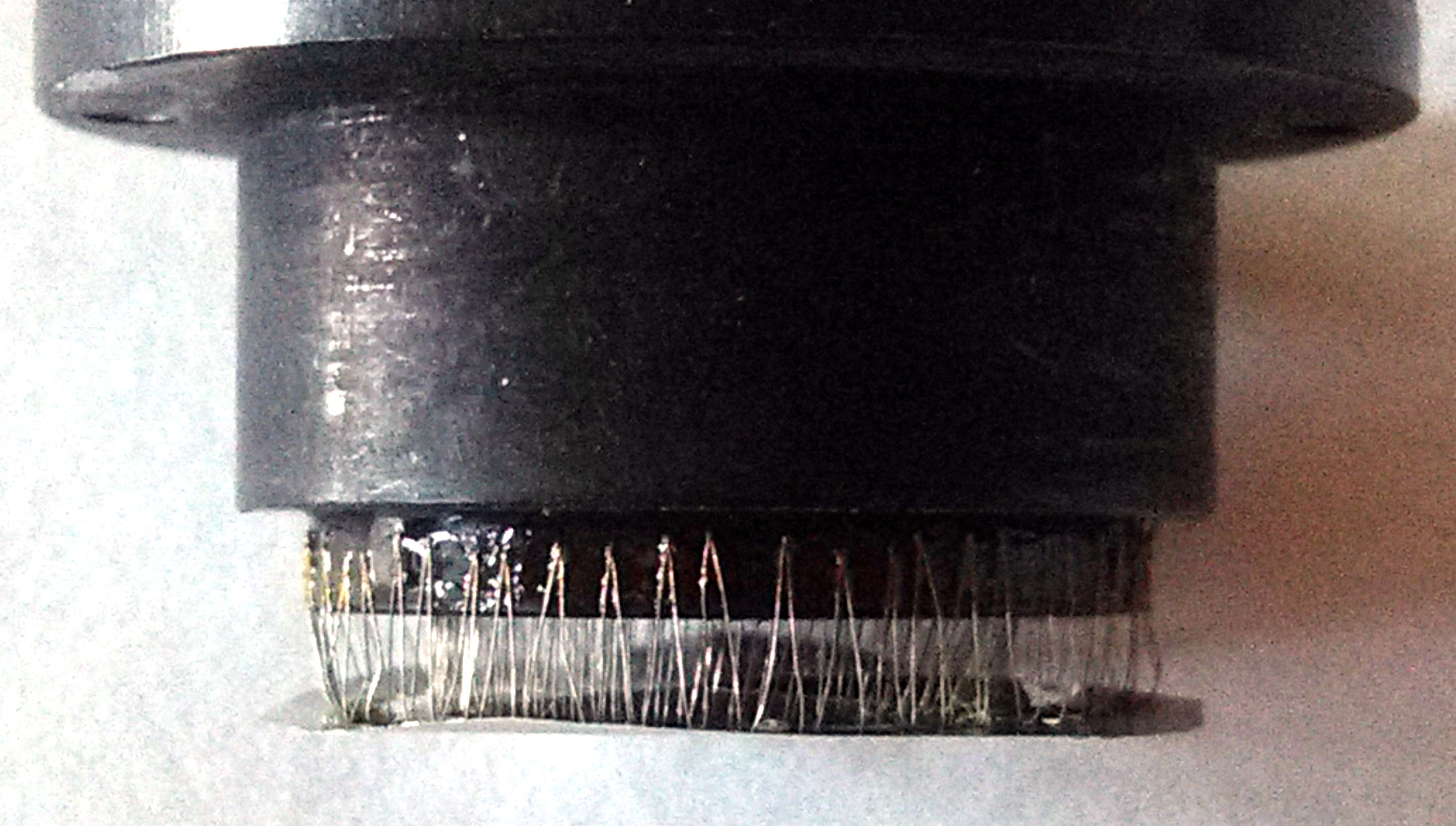 A closeup of a thermoelectric optical sensor, side view. Each of the angled connections between wires acts as a thermocouple.